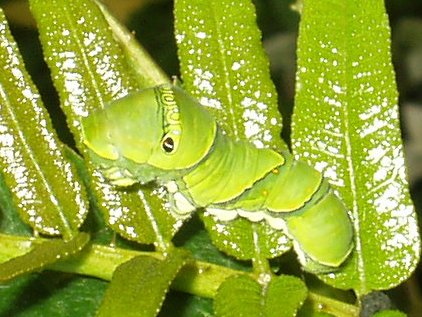 Papilio xuthus caterpillar